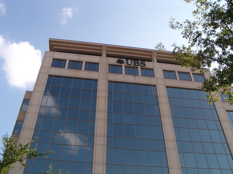 A building in the Preston Center neighborhood of Dallas, Texas, USA.